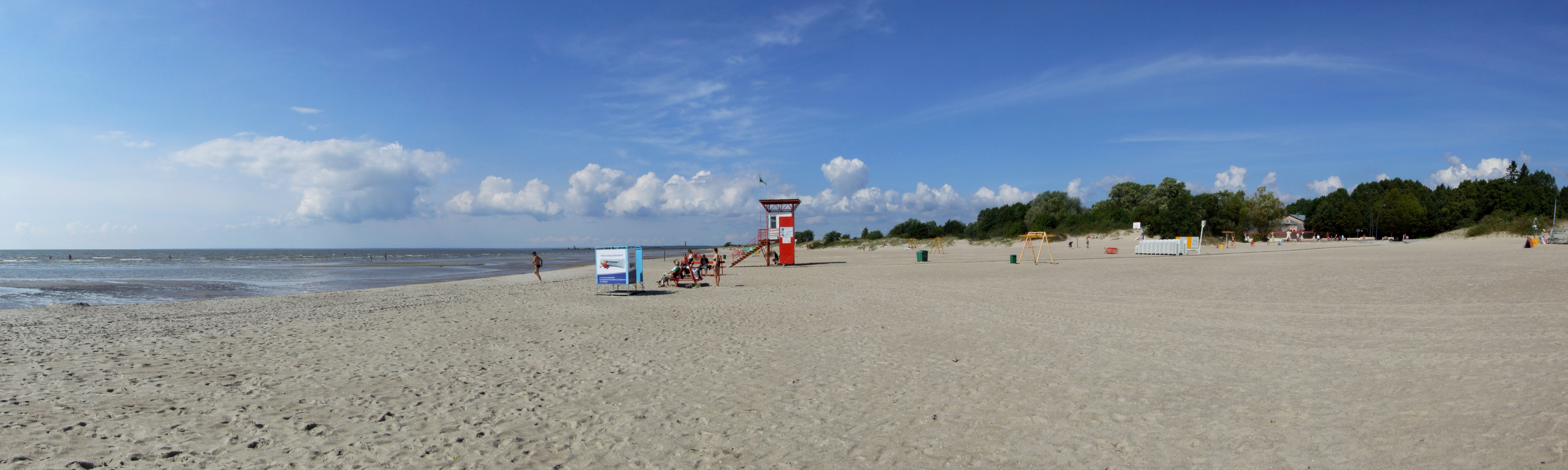 Panorama of beach in Pärnu